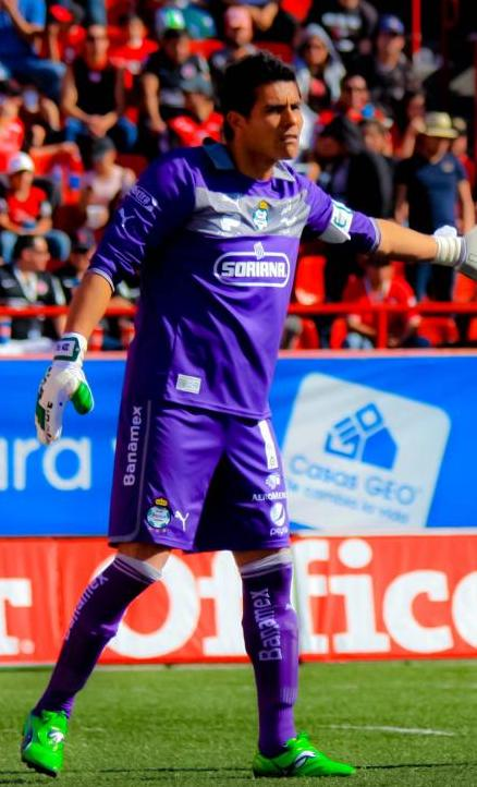 Mexican goalkeeper Oswaldo Sanchez